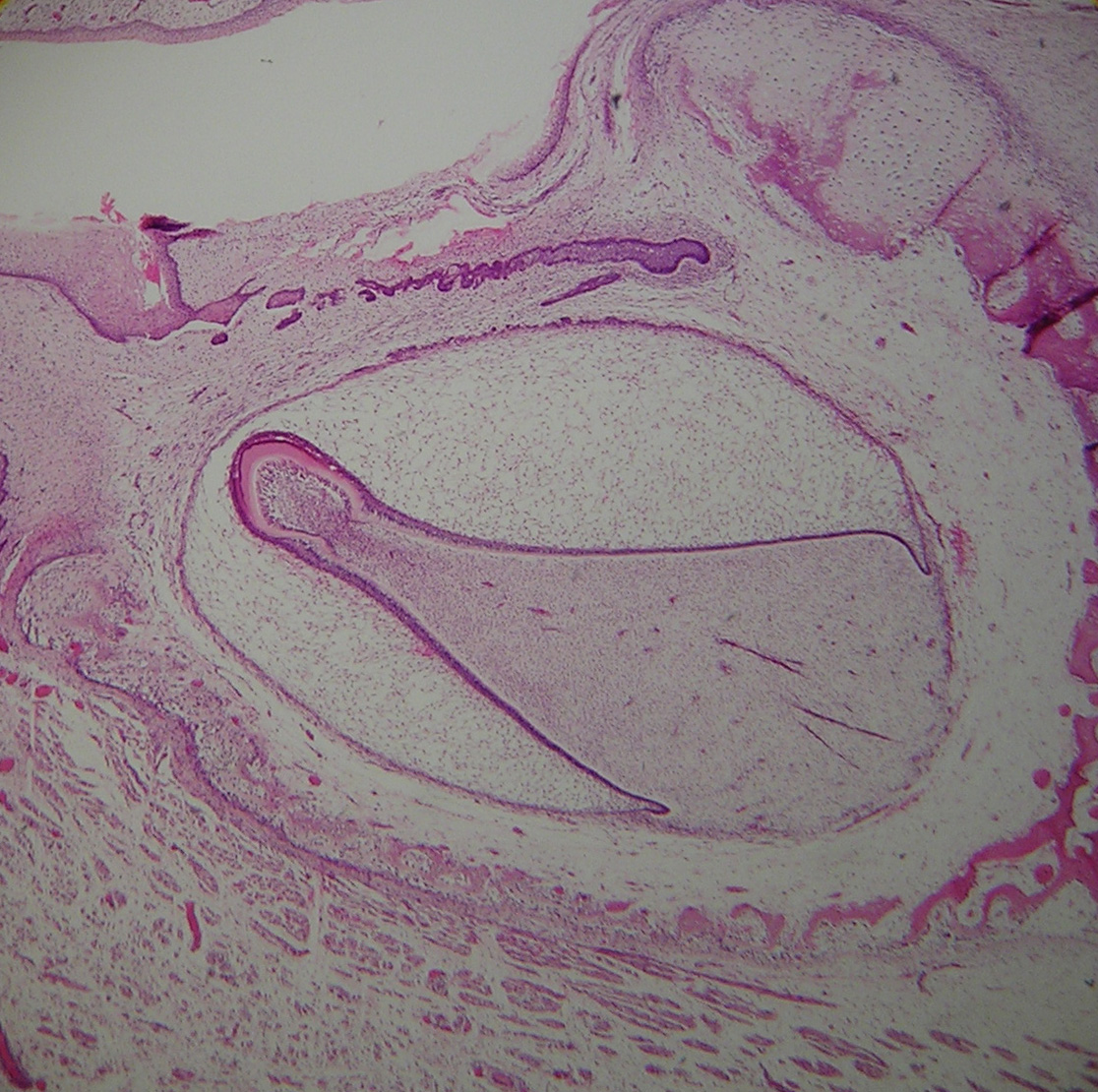 Histology of developing tooth with no labels. Tooth is in maturation/crown stage. Photo taken by Dozenist.